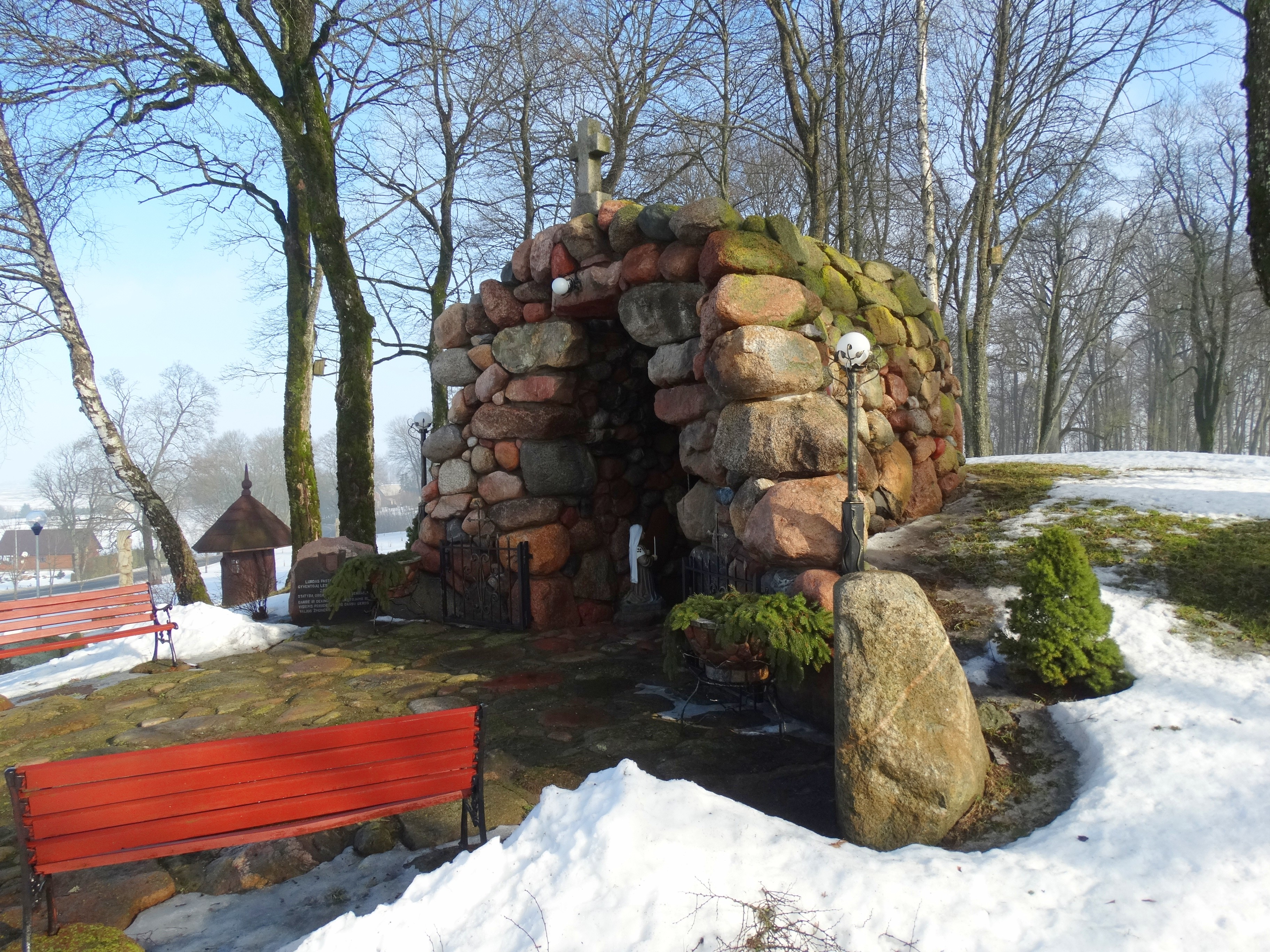 Lourdes, Bijotai, Šilalė district, Lithuania